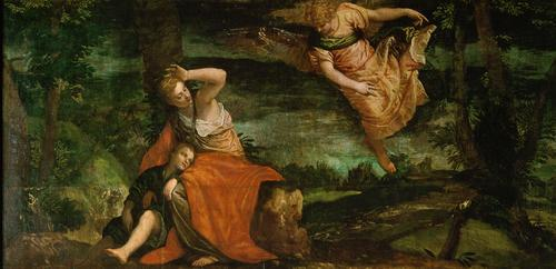 Apparition of the Angel to Hagar in the Desertlabel QS:Lde,"Der Engel erscheint Hagar in der Wüste"label QS:Len,"Apparition of the Angel to Hagar in the Desert"label QS:Lpl,"Anioł ukazuje się Hagar na pustyni"